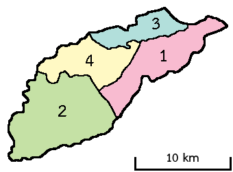 Thai: แผนที่แสดงตำบลของอำเภอเมยวดี